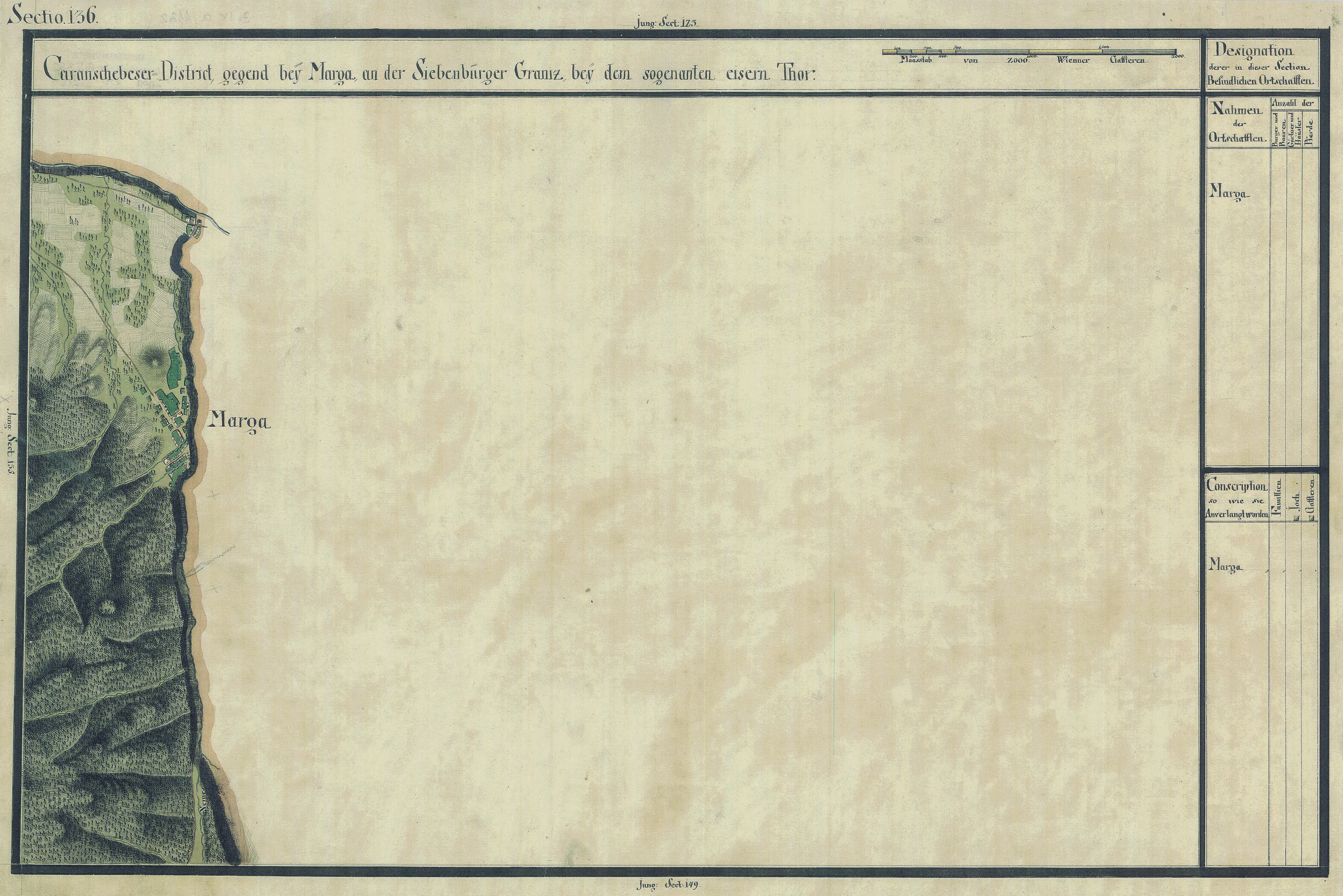 The Banat region in the cadastral maps: Josephinische Landesaufnahme, 1769-72. Josephinische Landaufnahme pg136